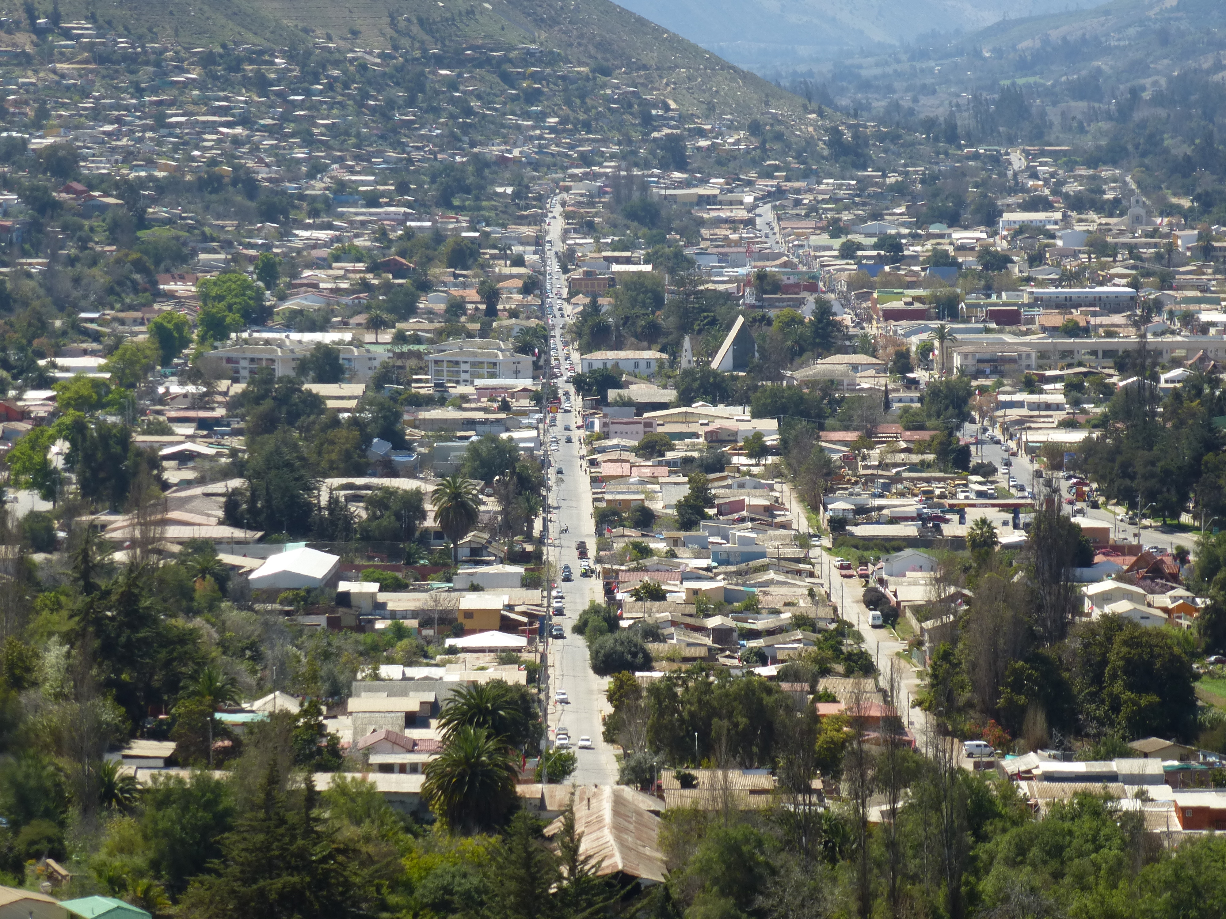 Illapel city.